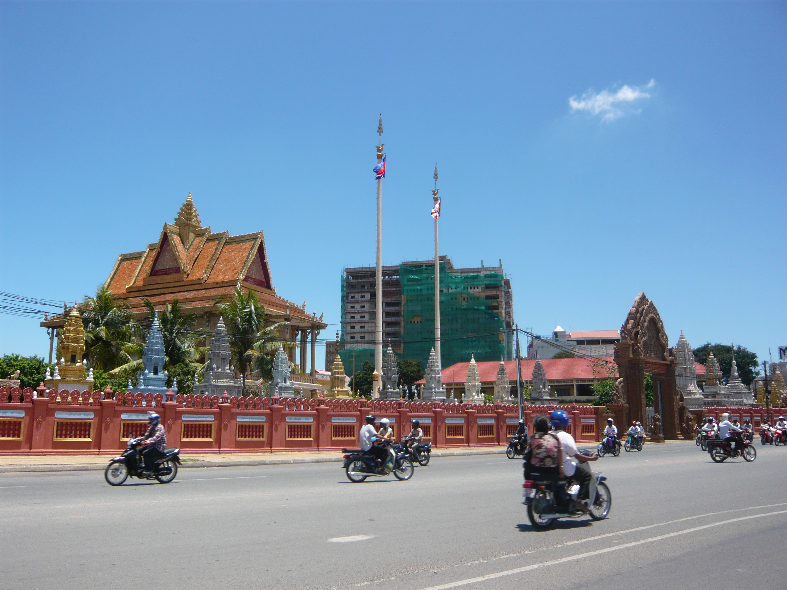 View of the Buddhist temple Wat Preah Puth. Phnom Penh, Cambodia. July 2011.